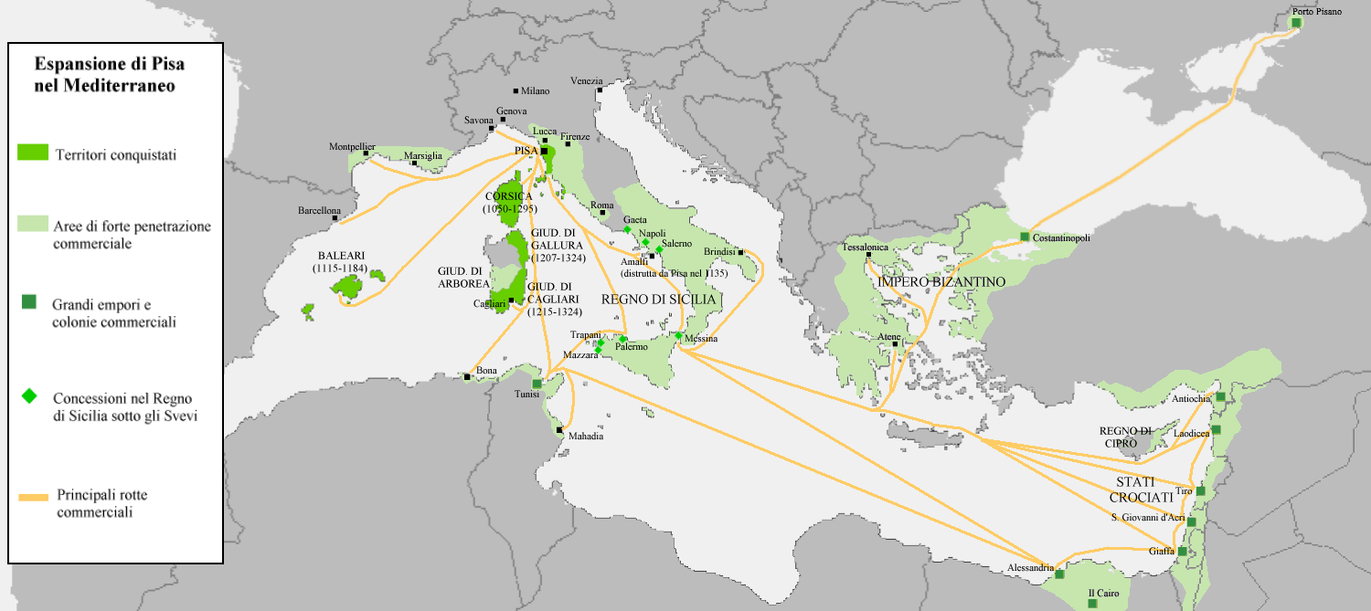 Unedited route and Porto Pisano in the Azov Sea.